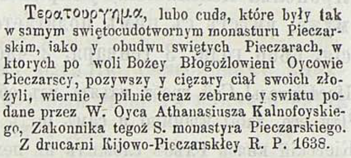 Heading of book Kalnofoisky «Teraturgema», 1638